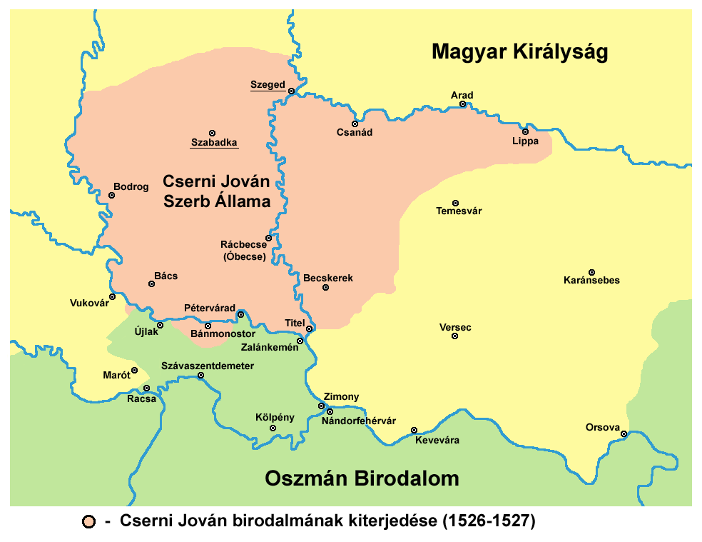 The Empire of Jovan Nenad (1526/27) - Hungarian language version